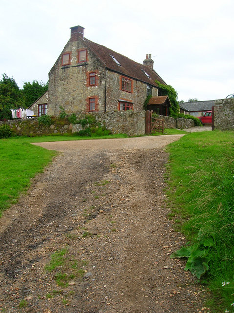 Ninham Farm Farmhouse nestling amongst a number of holiday parks and camping sites. The bridleway to America Wood goes to the right whilst the lane to Shanklin heads left.